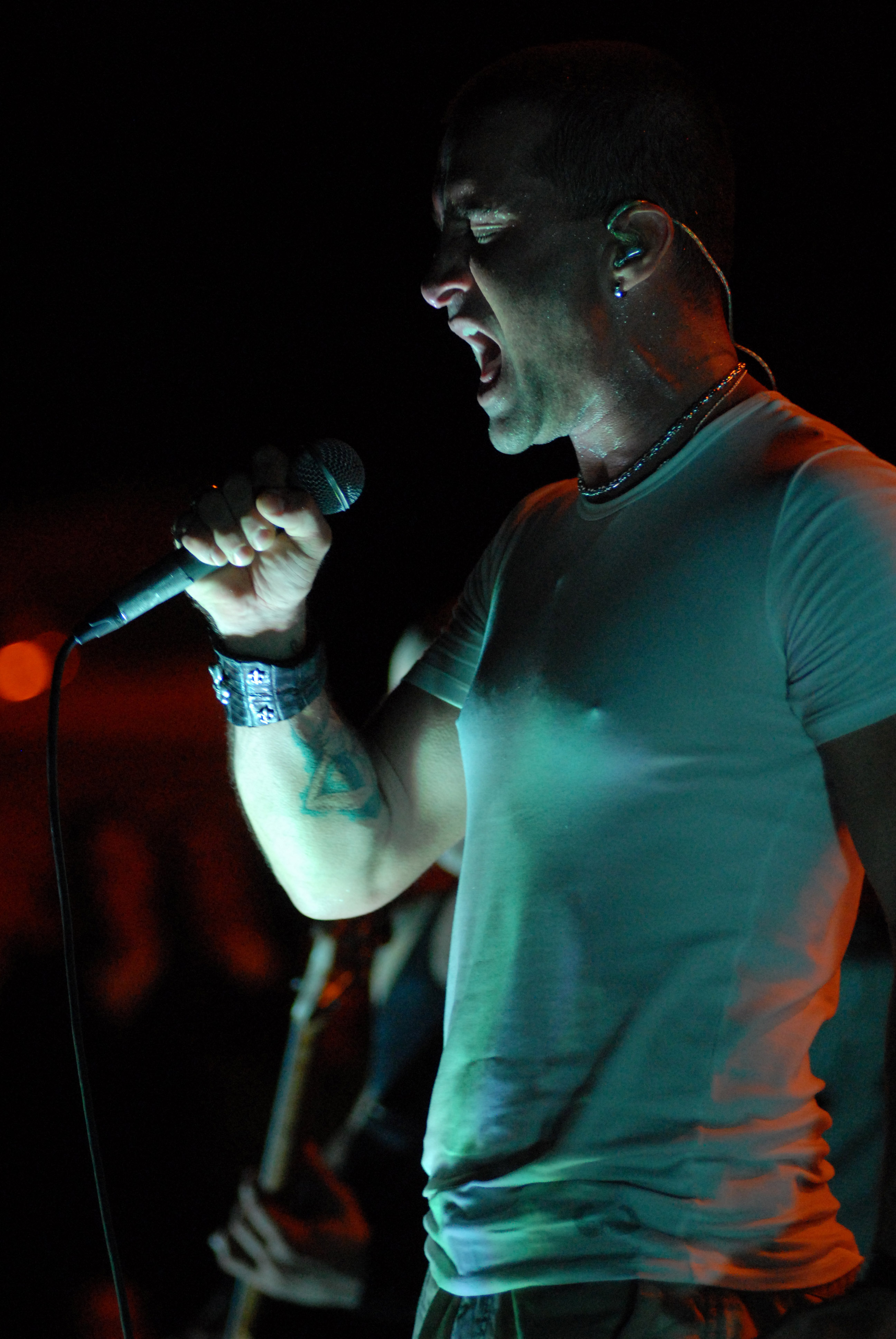 Scott Stapp, the former lead singer of the band Creed, and his band perform during a concert on the flight deck of the Nimitz-class aircraft carrier USS Ronald Reagan (CVN 76) while under way in the Gulf of Oman Sept. 24, 2008. The band visited the ship to raise crew morale. Ronald Reagan is deployed to the U.S. 5th Fleet/NAVCENT area of responsibility.